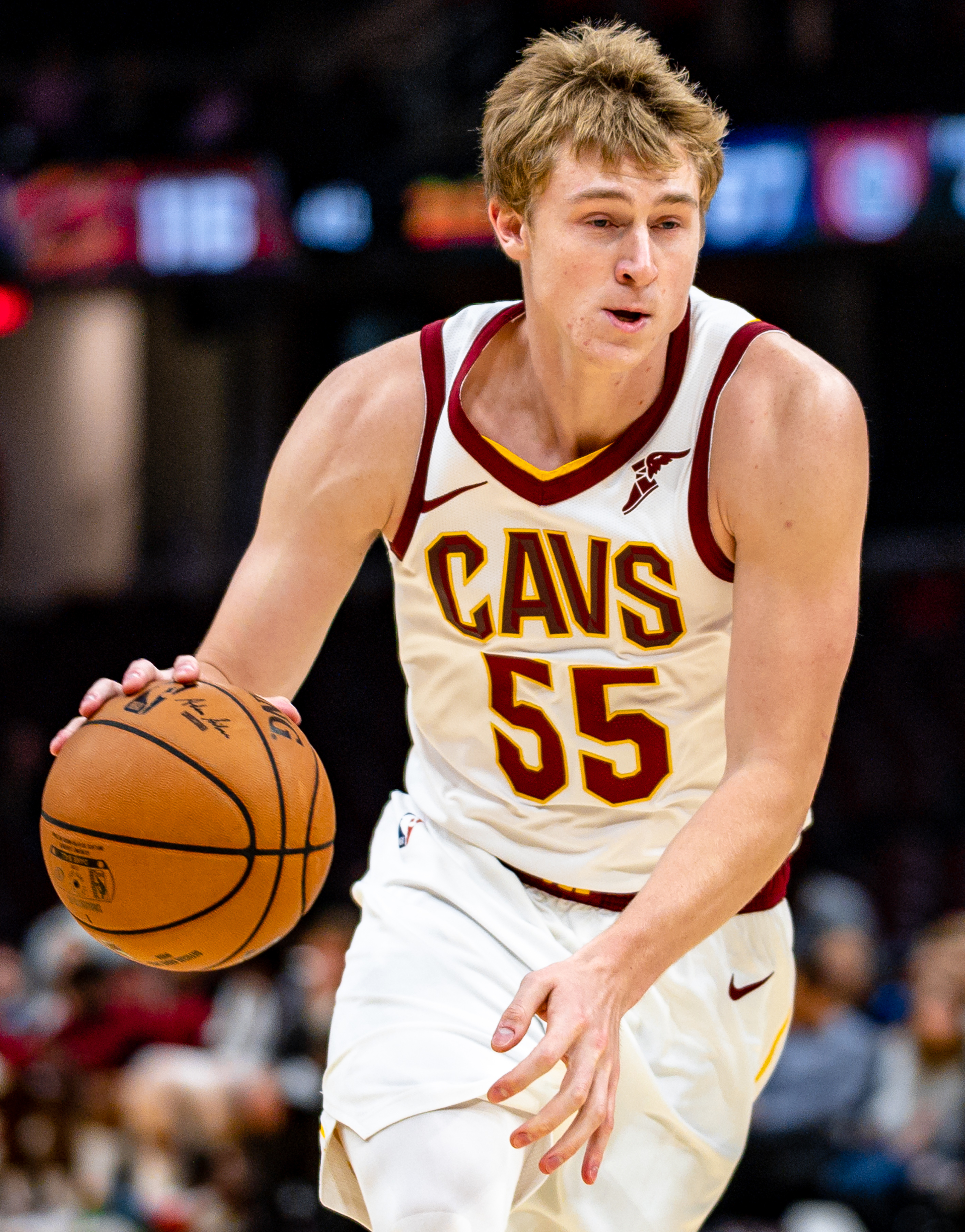 J. P. Macura of the Cleveland Cavaliers dribbles against San Lorenzo de Almagro defender Firmin Thygesen during a 2019 preseason exhibition game at Rocket Mortgage FieldHouse in Cleveland.